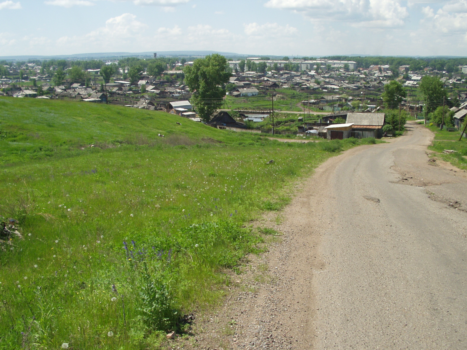 Panorama of Zaozyorny as seen from the road to the Gmiryanka village.